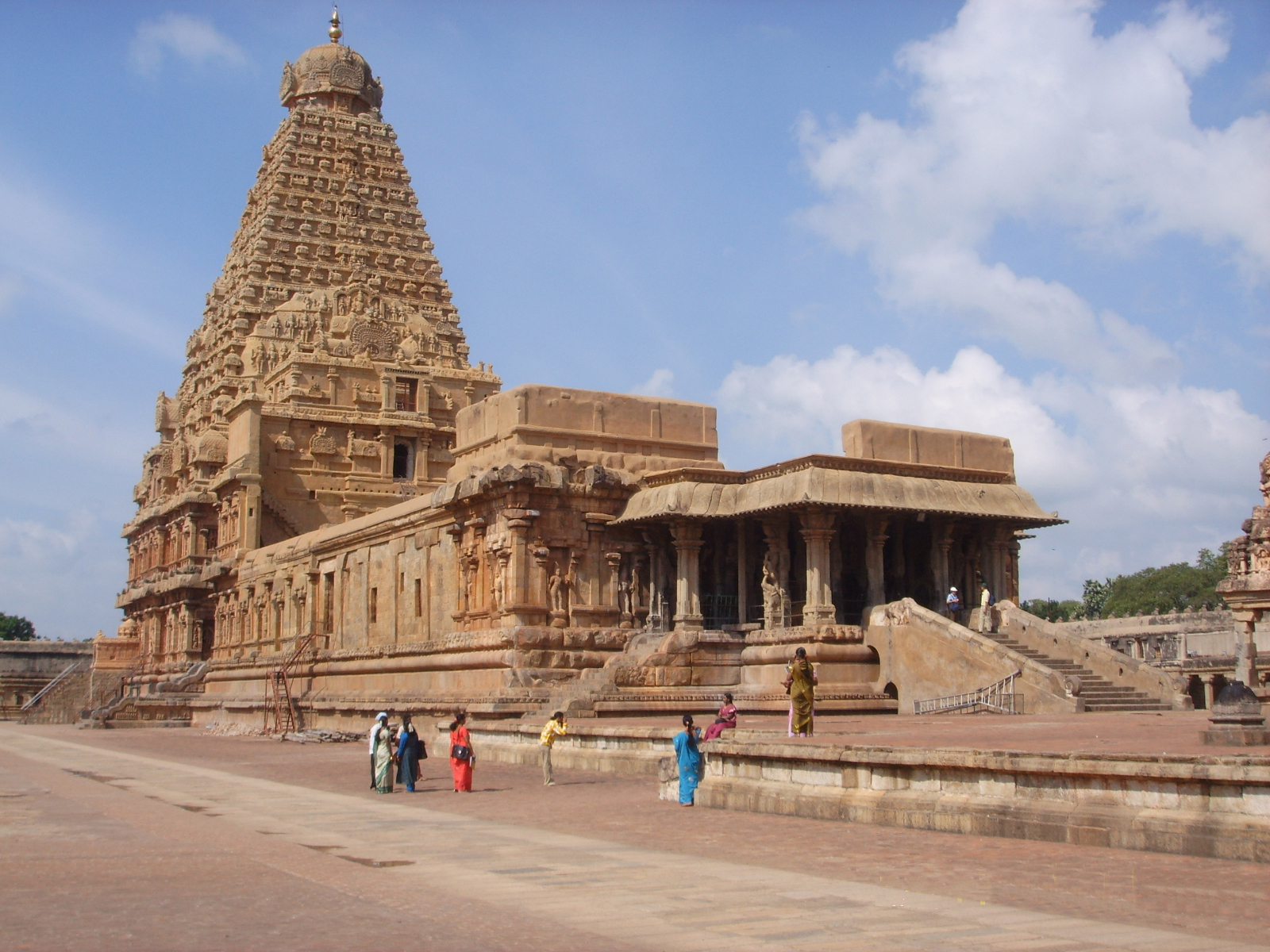 Brihadeeswarar Temple